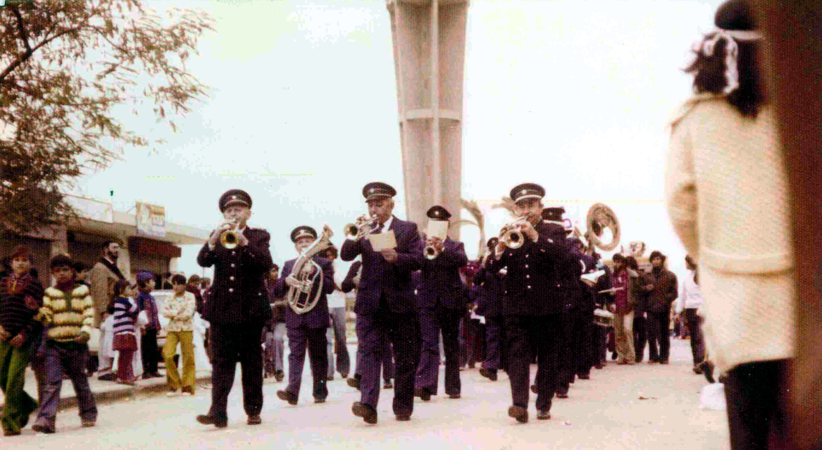 Police Orchestra at Alfasi street near by water tower, at Independence day parade. marched children and adults as well as from organized groups - schools, factories and more